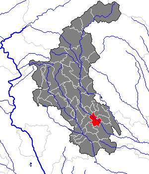 This map shows the area of the Gemeinde (municipality) Ilztal in the Bezirk (district) Weiz, Styria, Austria.